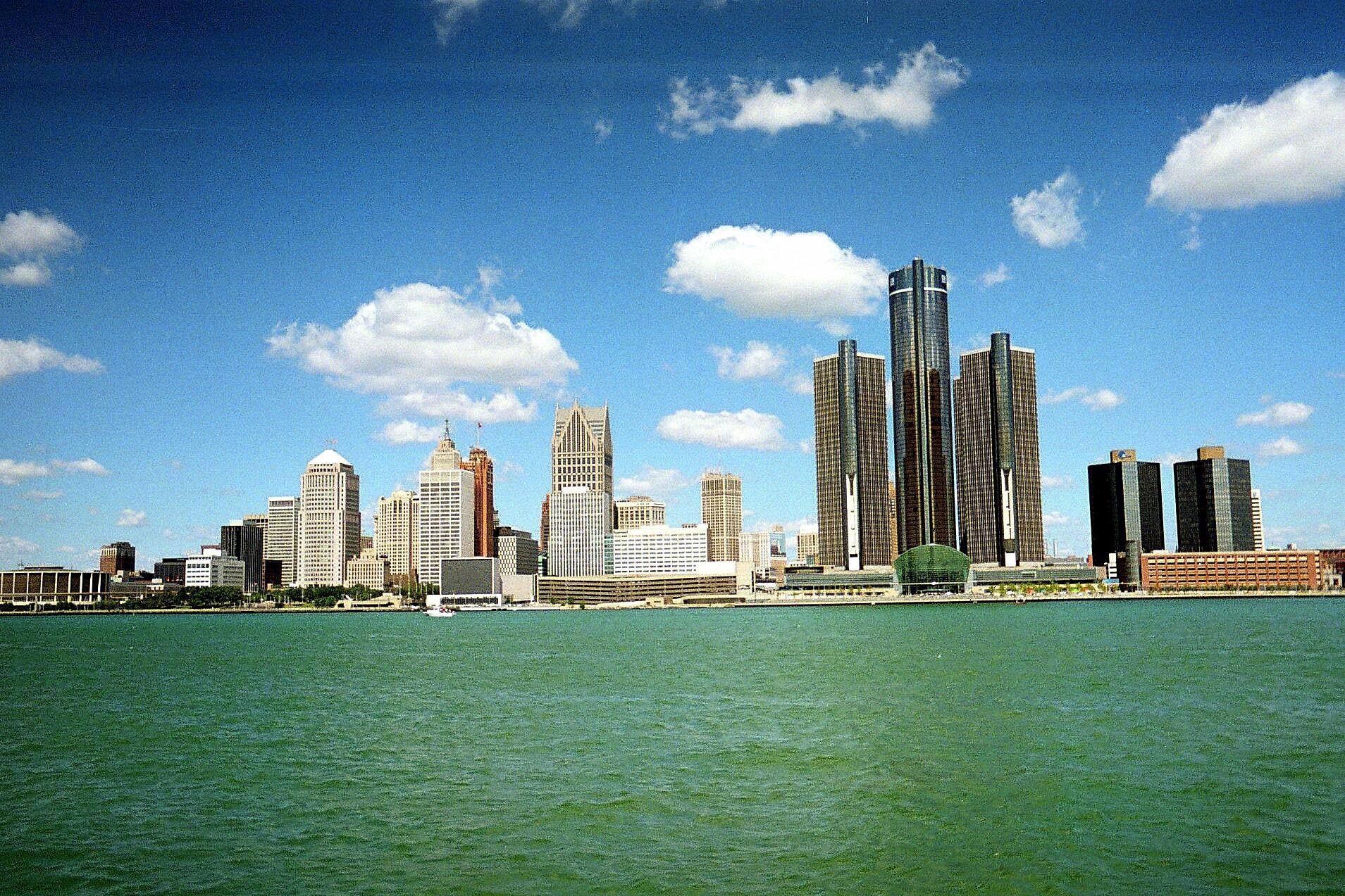 self made Category:Images of Detroit, Michigan